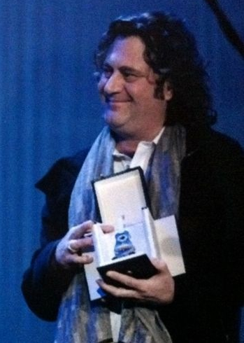 Stefano Senardi